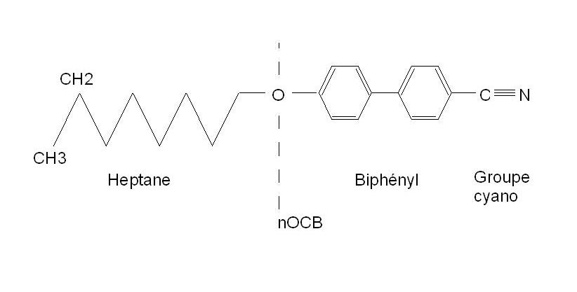 OCB (n-alkyloxy-cyanobiphenyl) molecule